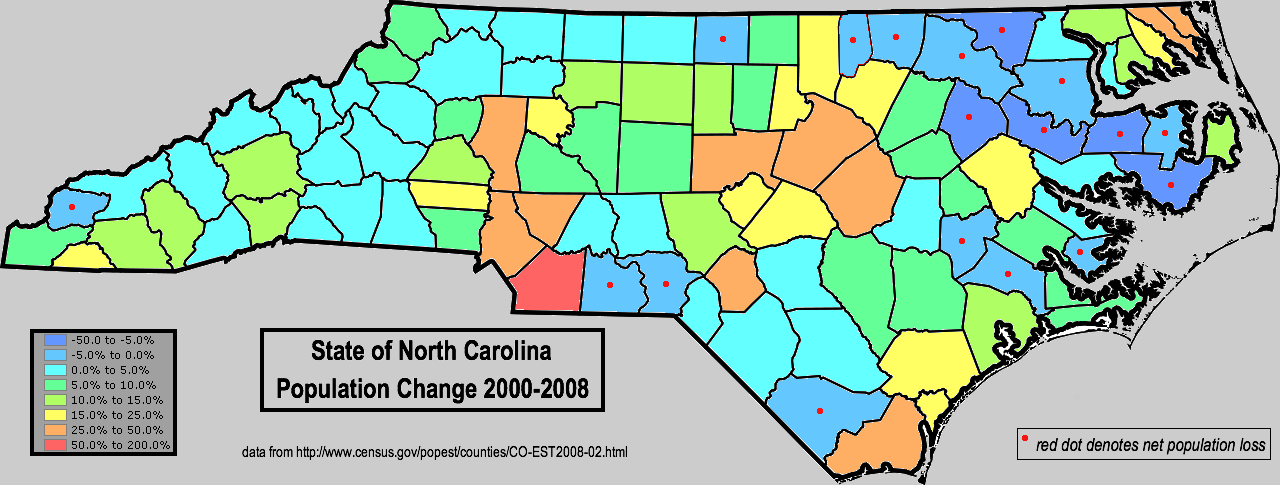 Map of North Carolina, using color shading to denote net county-level population change from the 2000 thru 2008 period (2008 population estimates vs. 2000 census values). Data retrieved from Note the large-scale area of net population loss in the inland northeastern part of the state; these counties are all related to each other in that they contain the highest percentage of blacks, according to the Census 2000 data. [1]